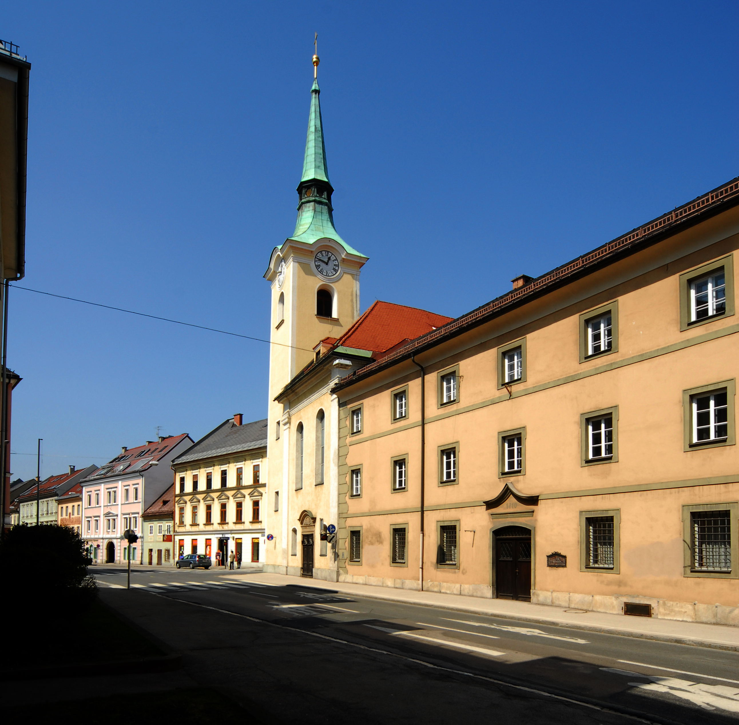 Rectorate church Saint Elisabeth and Elisabethan monastery on Voelkermarkter Strasse #15, 6th district "Voelkermarkter Vorstadt", Klagenfurt, Carinthia, Austria, EU